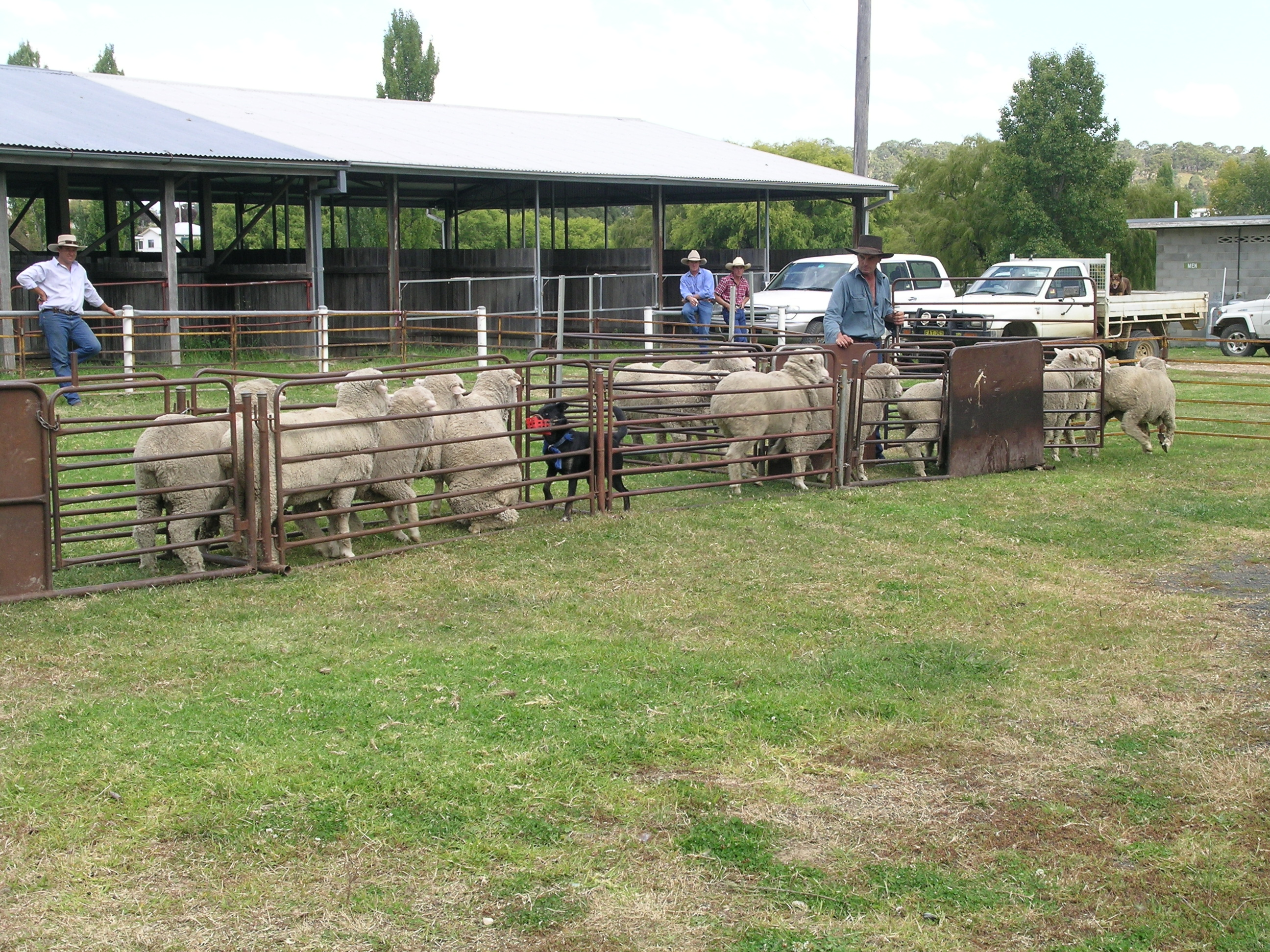 Kelpie moving back through a race to move the sheep forward during a trial. He has been muzzled to prevent him from biting the sheep.